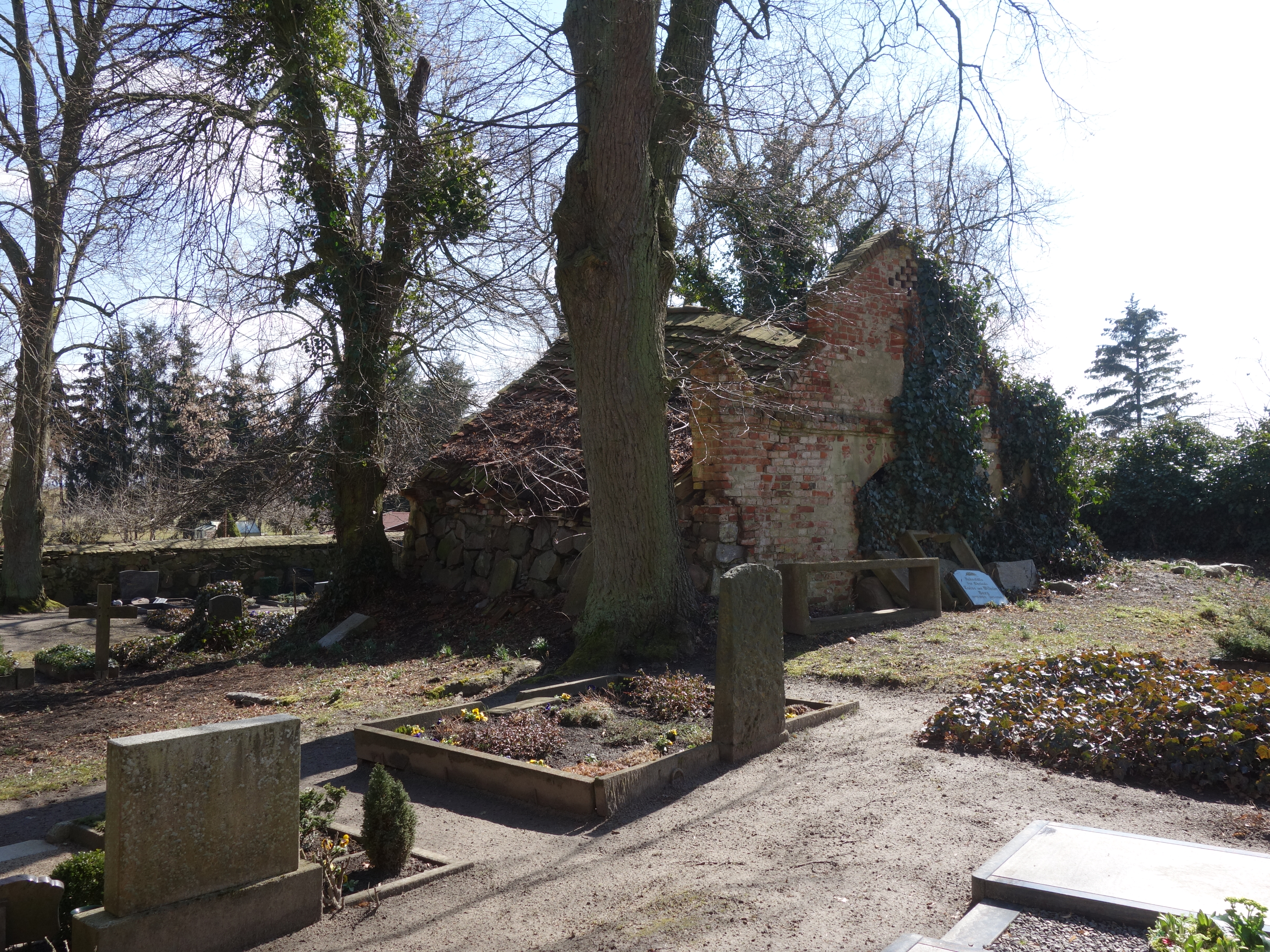 North-western view of the mausoleum of Lindenhagen family in Damme , Grünow municipality , Uckermark district, Brandenburg state, Germany